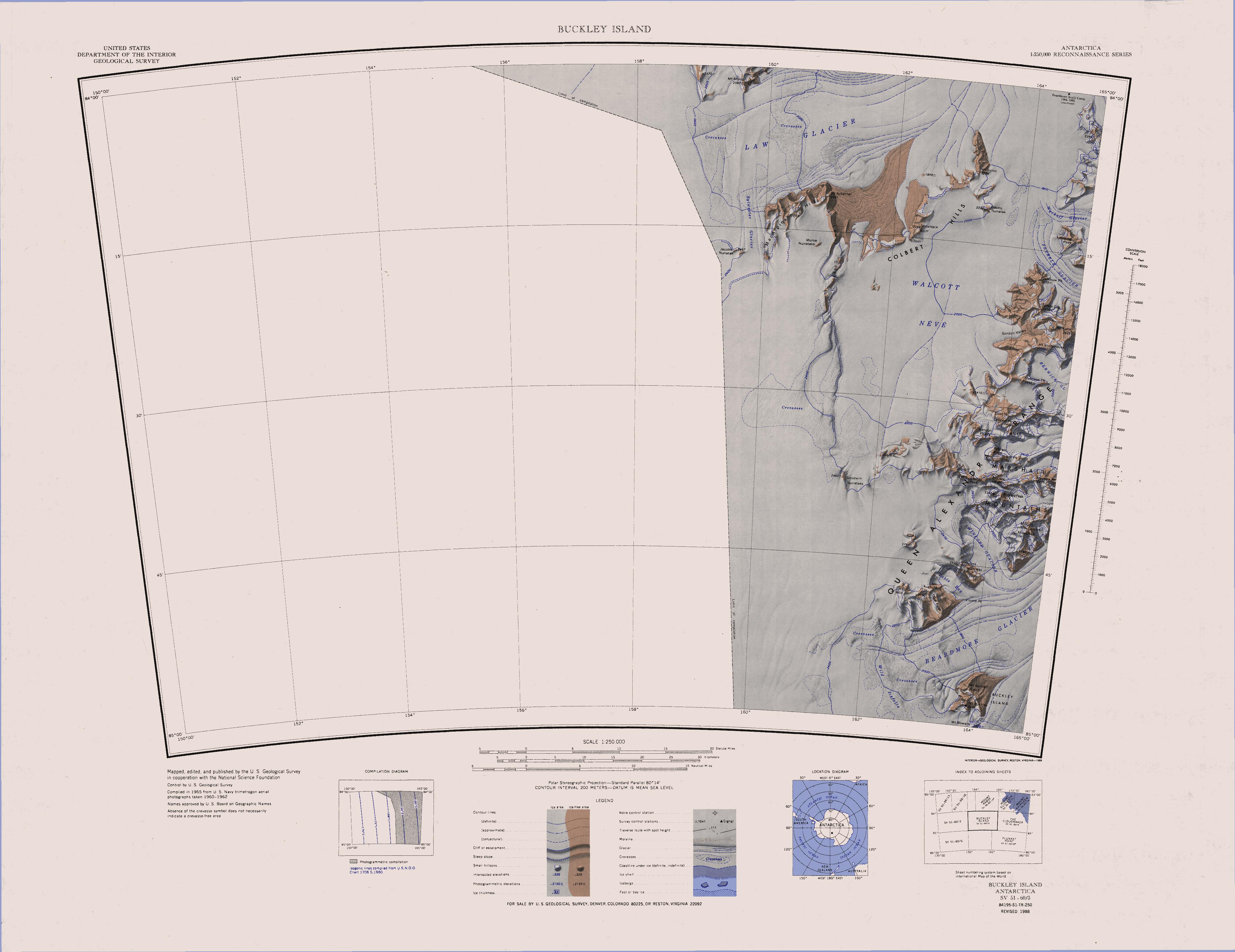 Map of Antarctica by the United States Antarctic Resource Center of the US Geological Society.